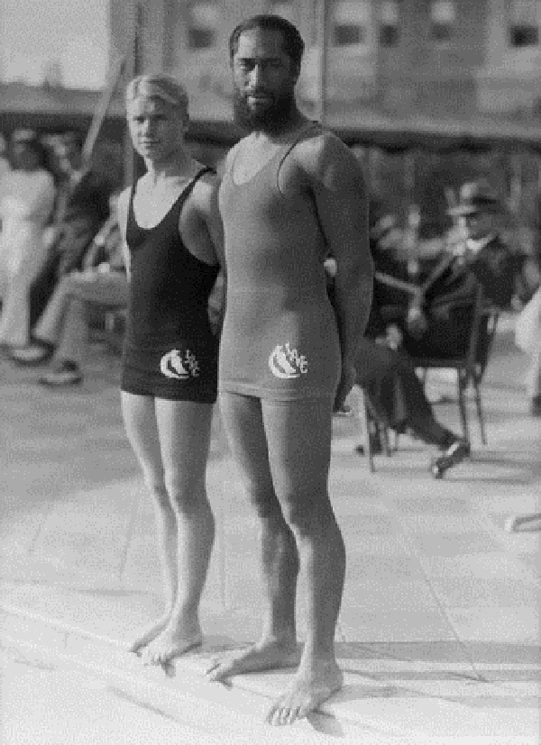 Mickey Riley and Duke Kahanamoku at the pool of the Ambassador Hotel.